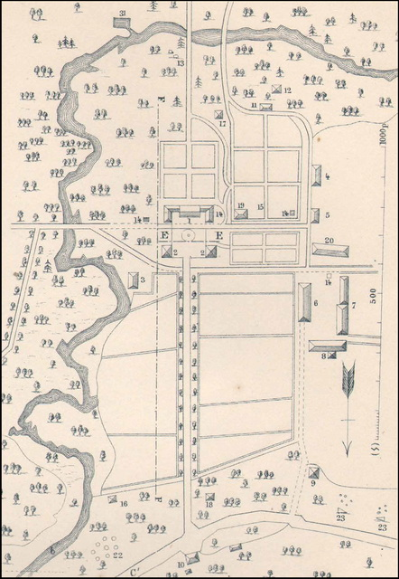 Map over Oby manor, Blädinge, Alvesta, Småland, Sweden.